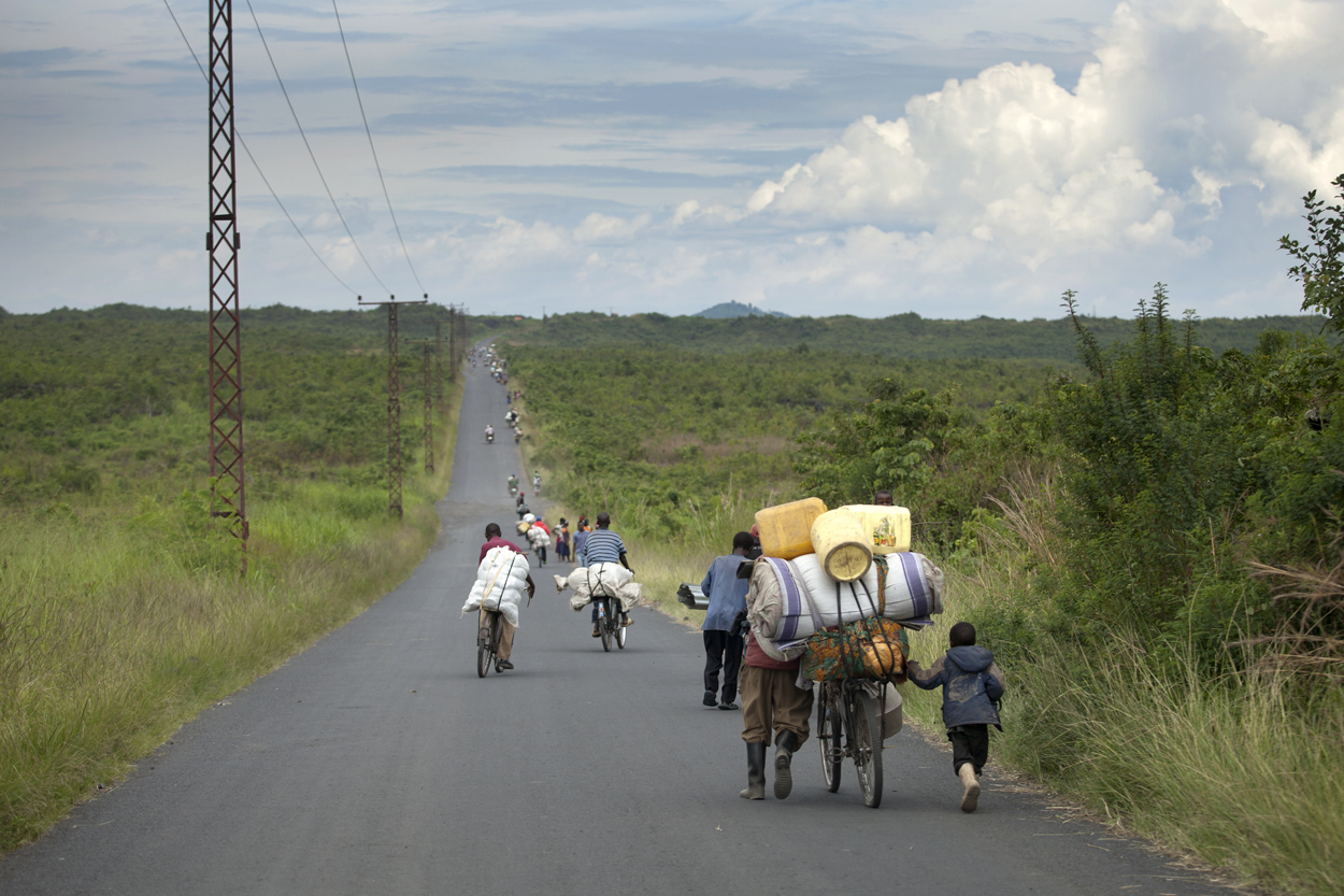 Population fleeing their villages due to fighting between FARDC and rebels groups, Sake North Kivu the 30th of April 2012.